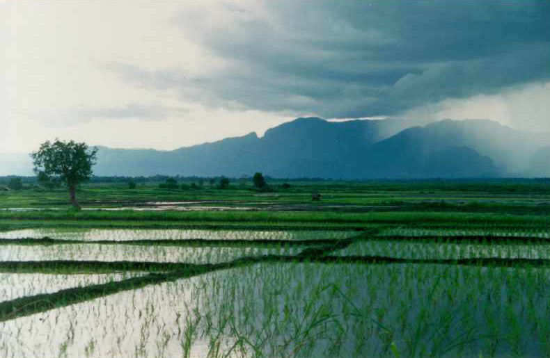 吴语: rice paddy in Laos